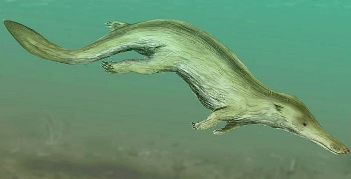 Kutchicetus minimus, an early whale from the middle Eocene of India. Pencil drawing, digital coloring